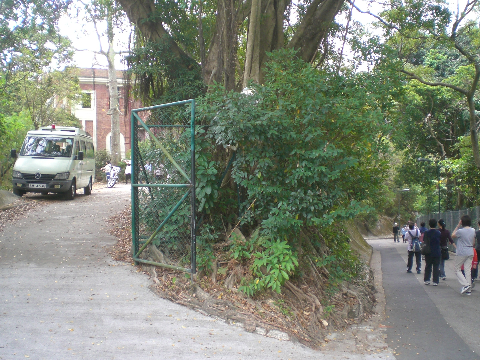 林邊樓